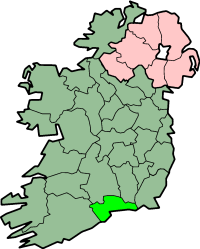 map of County Waterford, Ireland 08:09, 5 February 2004 Morwen 200x249 (30686 bytes) (map)